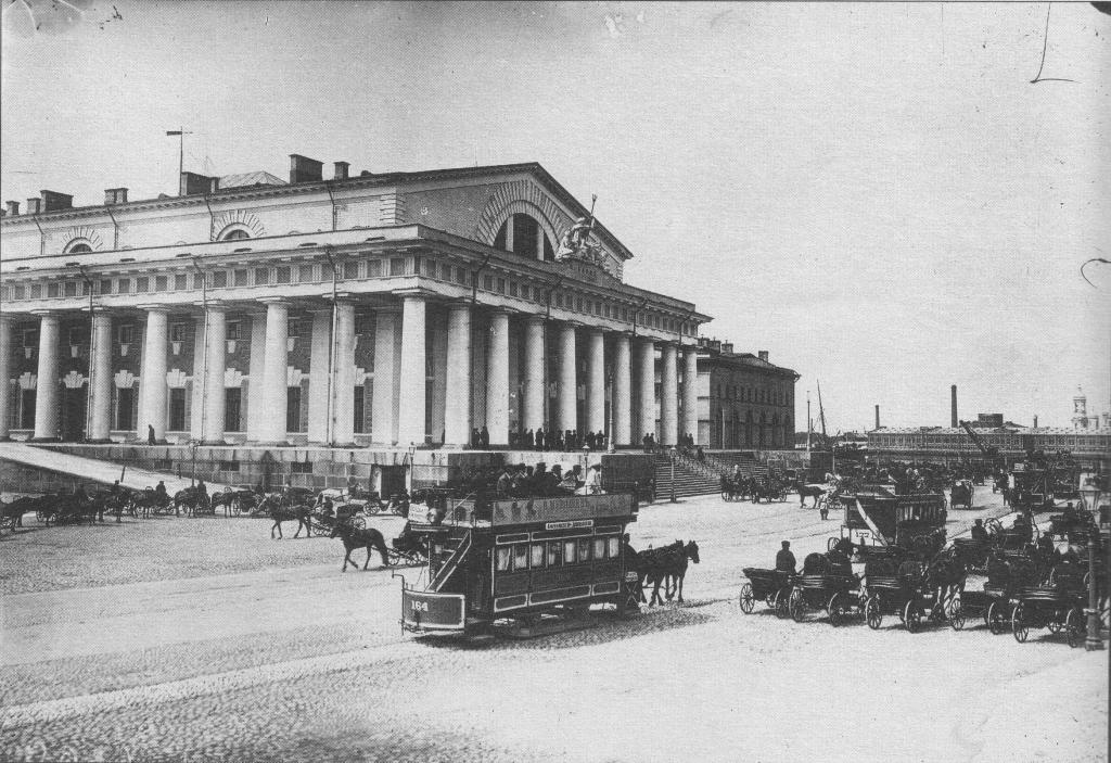 Stock exchange